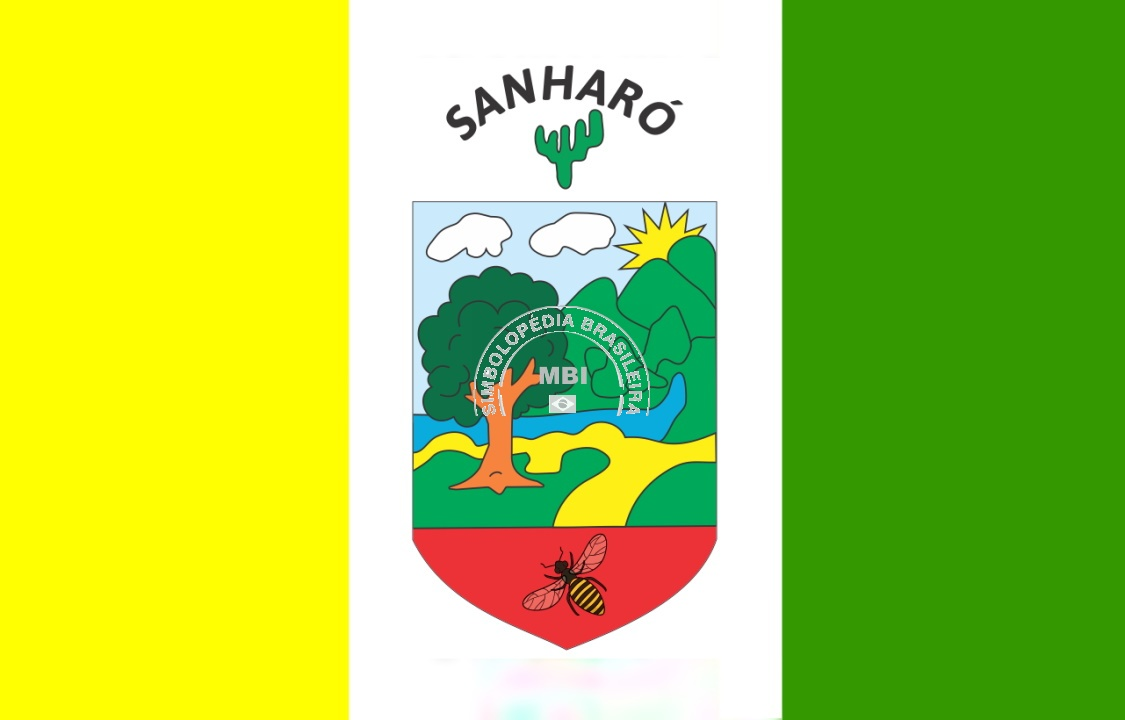 Bandeira Sanharó